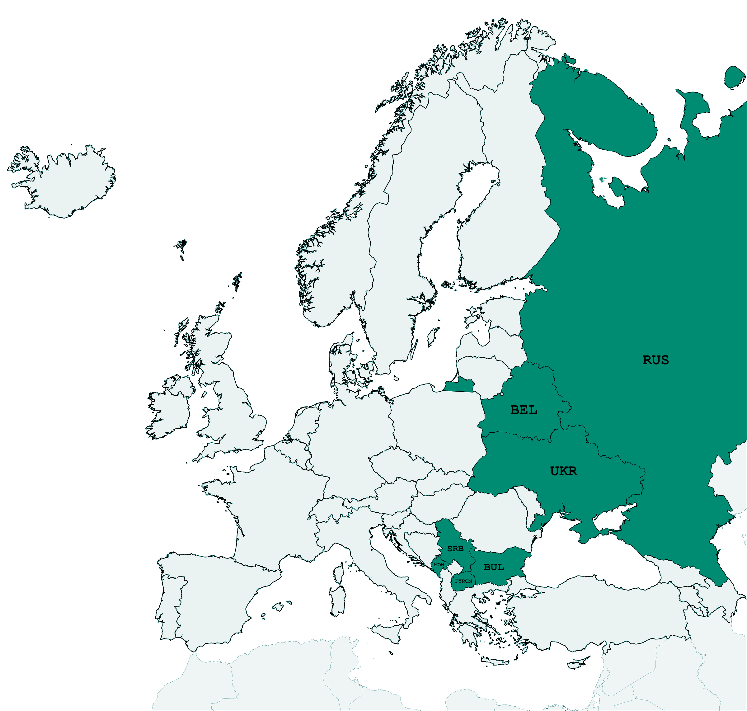 A map of the Orthodox Slavic countries, which is an alternate way of categorizing the Slavic languages/cultures.